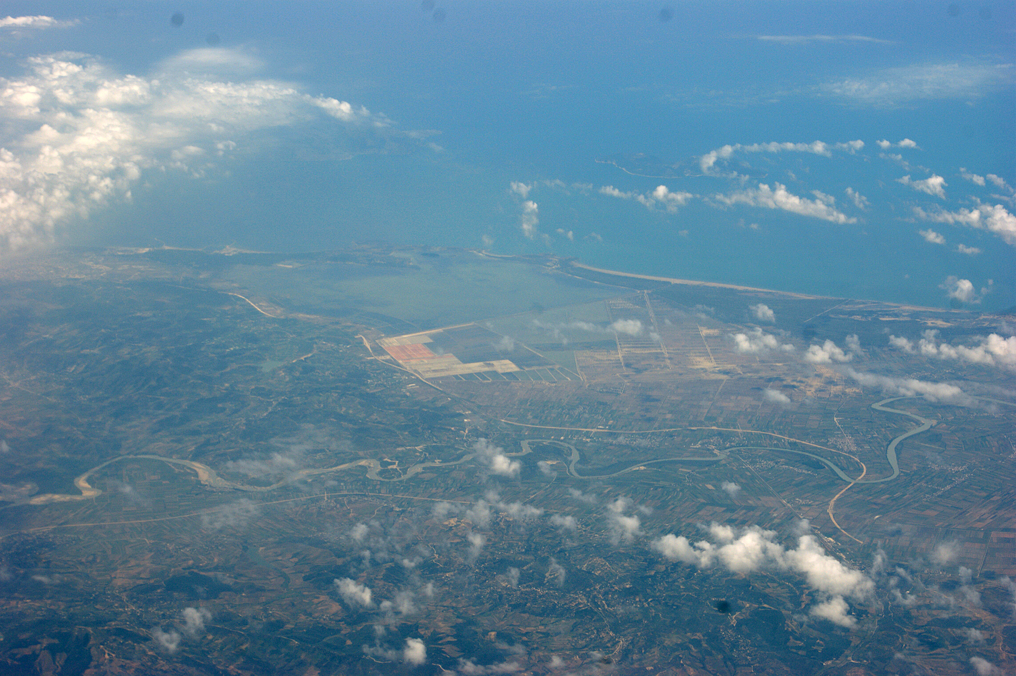 Narta Lagoon, Vlorë County, Southern Albania. New highway under construction